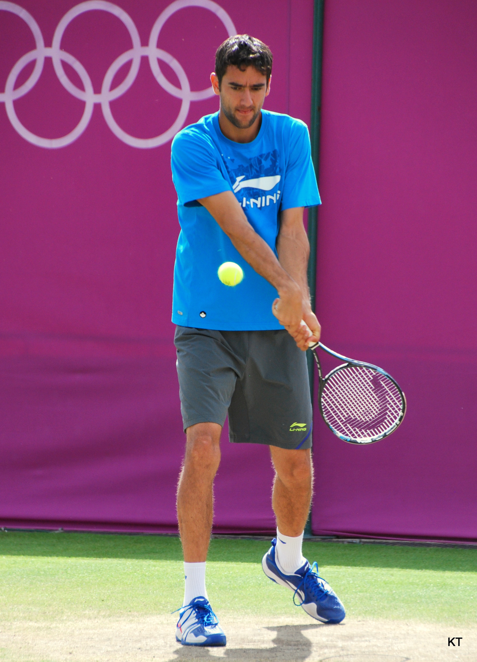 On the practice court with doubles partner Ivan Dodig.